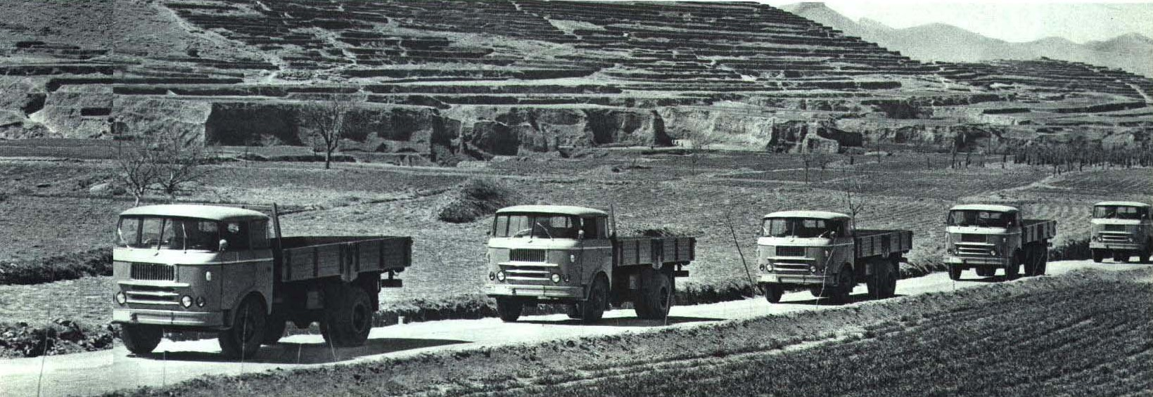 1965-02 1965 济南汽车制造厂 黄河牌重卡